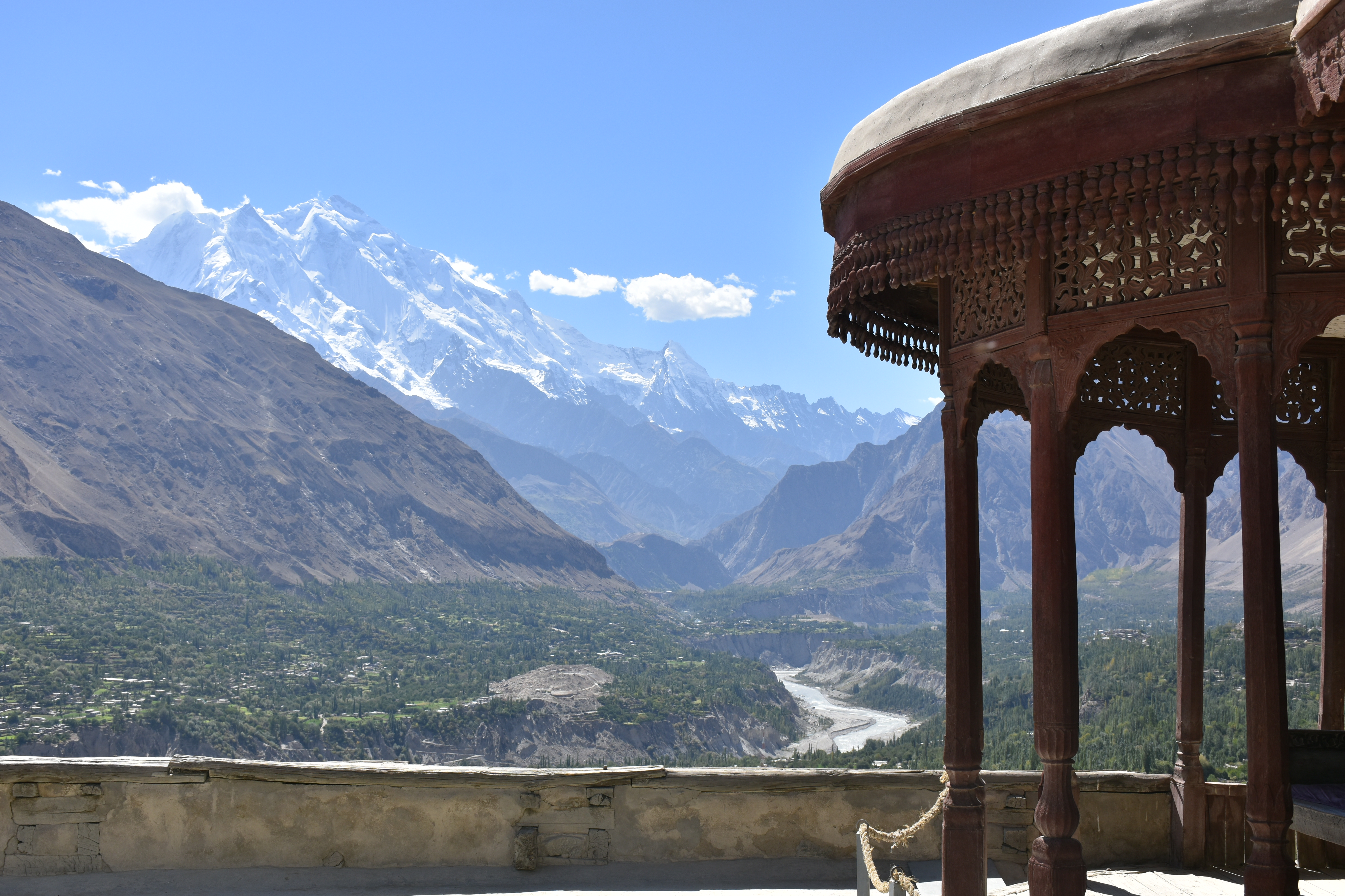 Baltit Fort This is a photo of a monument in Pakistan identified as the GB-15